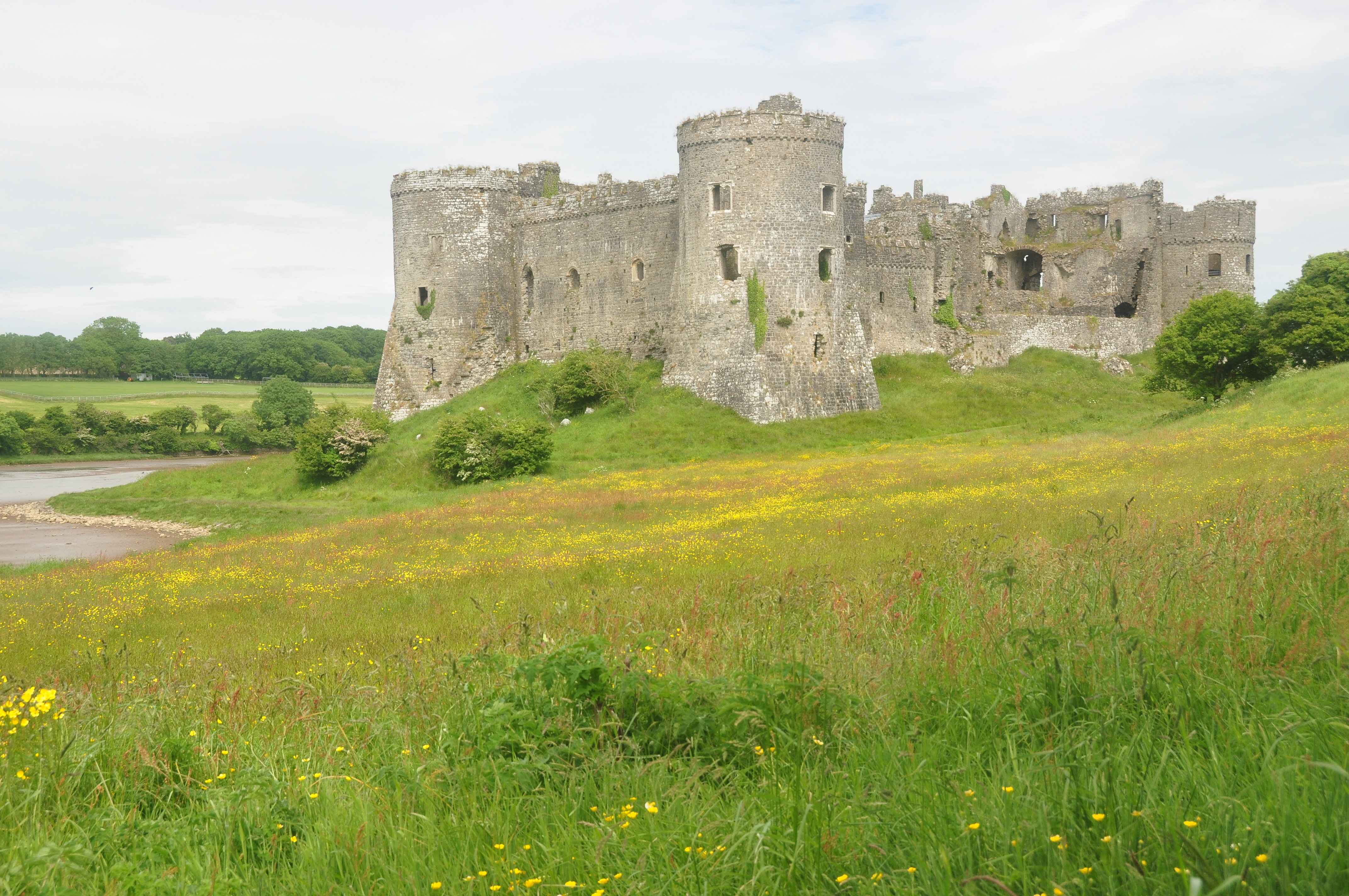 Carew Castle